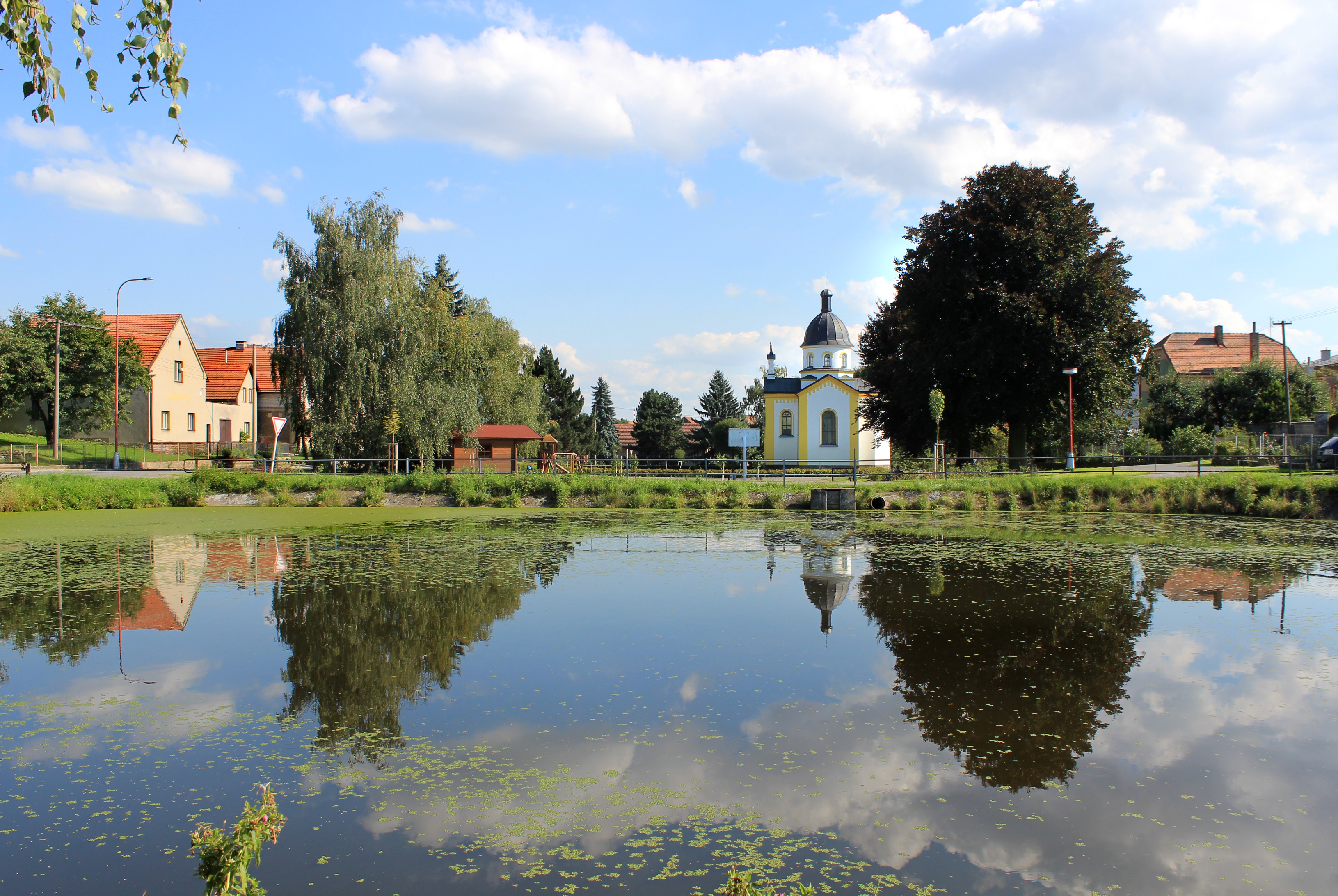 Common in Sedliště, Czech Republic.